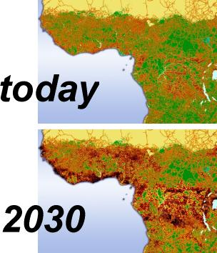 Scenarios for the reduction and fragmentation of Great Ape Habitat in Central Africa 2002-2032. Newton. Great Apes - the Road Ahead. 2002. UNEP. Cartography by Hugo Ahlenius, UNEP/GRID-Arendal, graphic donated to the public domain